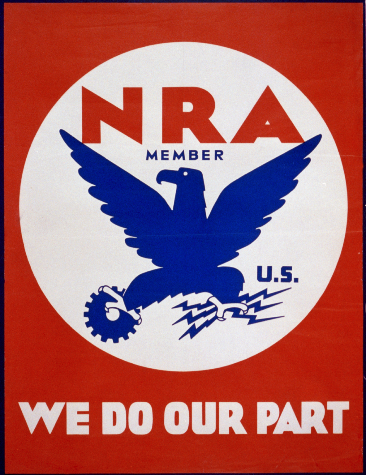 Title: NRA member, we do our part Description: 1 print : color ; sheet 70 x 53 cm (poster format)